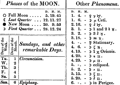 This excerpt from the 1833 Nautical Almanac illustrates the use of astronomical symbols, including symbols for the phases of the moon, the planets, and zodiacal constellations.